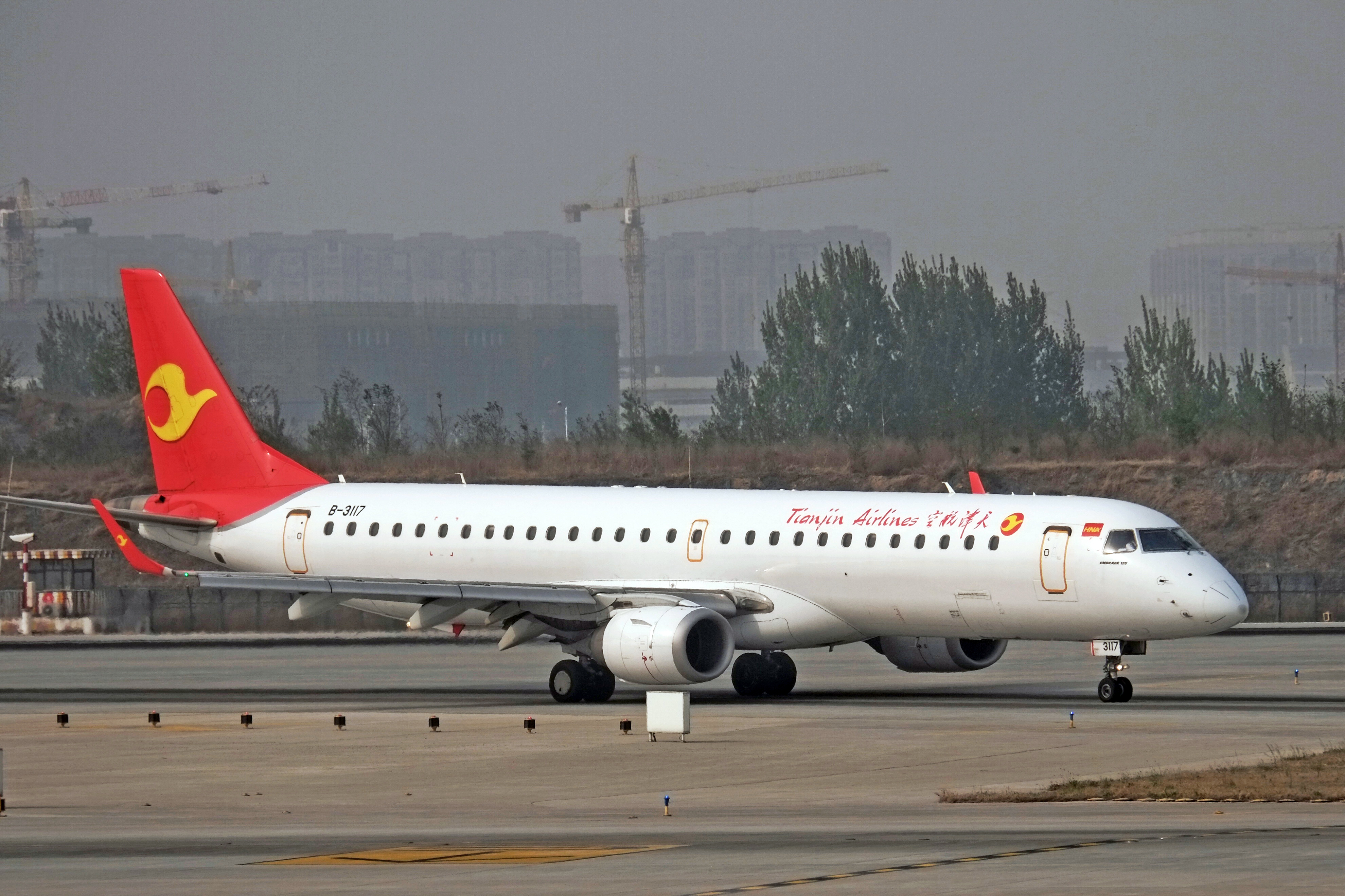 B-3117 on flight GS7841 from Tianjin at CGO